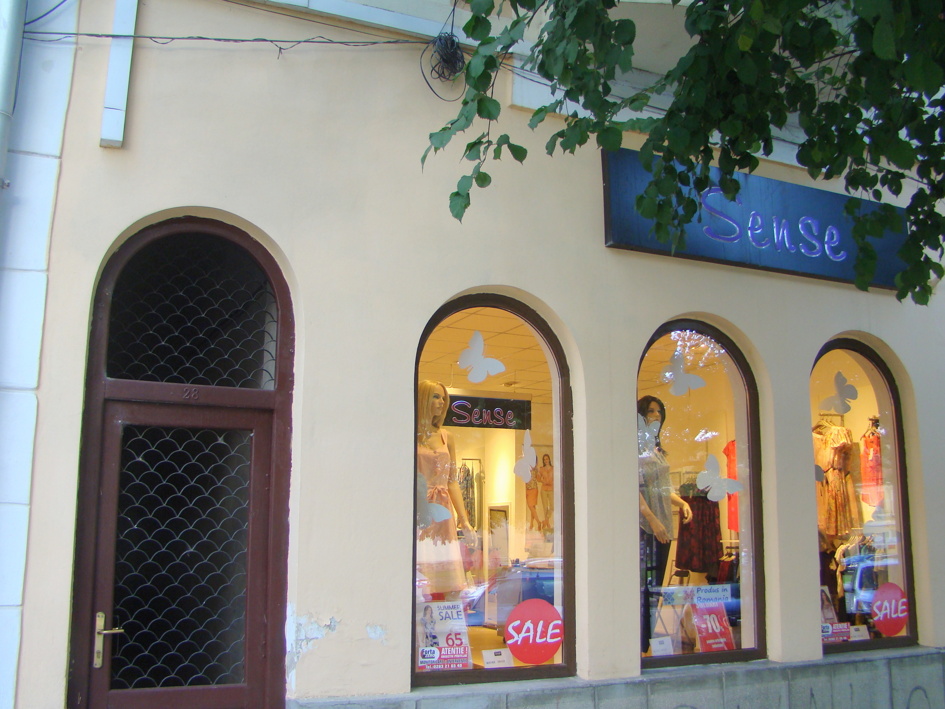 House, historic monument, in Bistrița, Piața Centrală 28